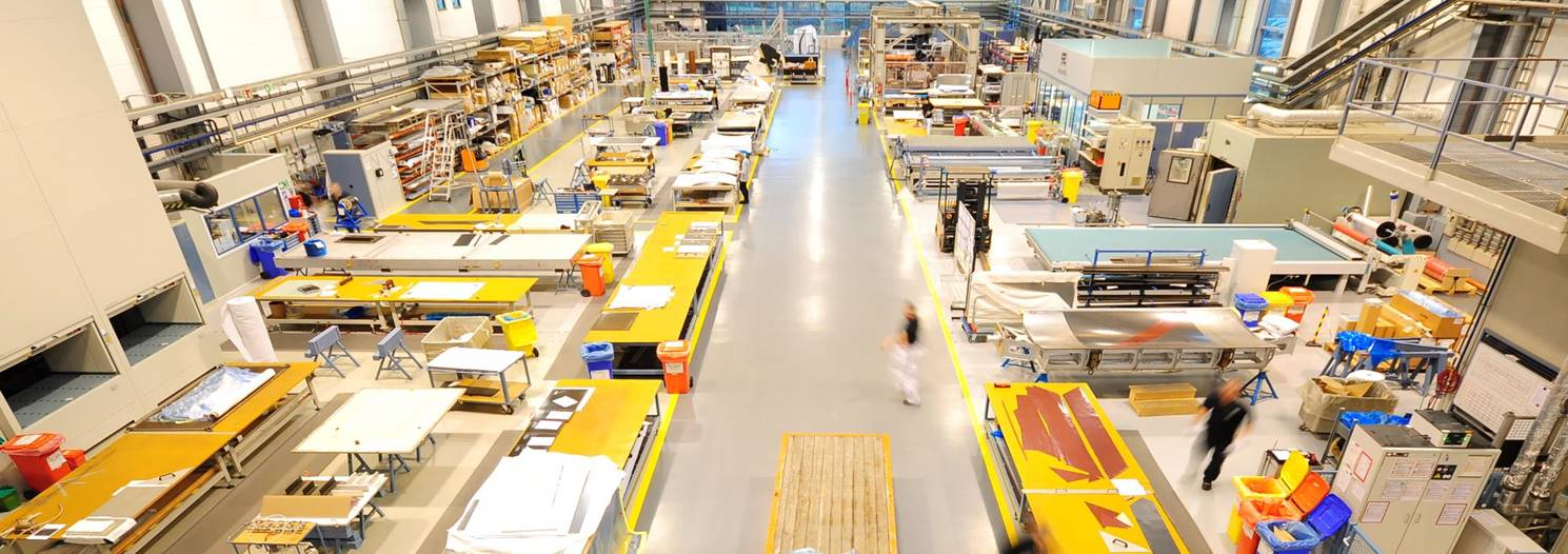 CTC GmbH - Production Hall